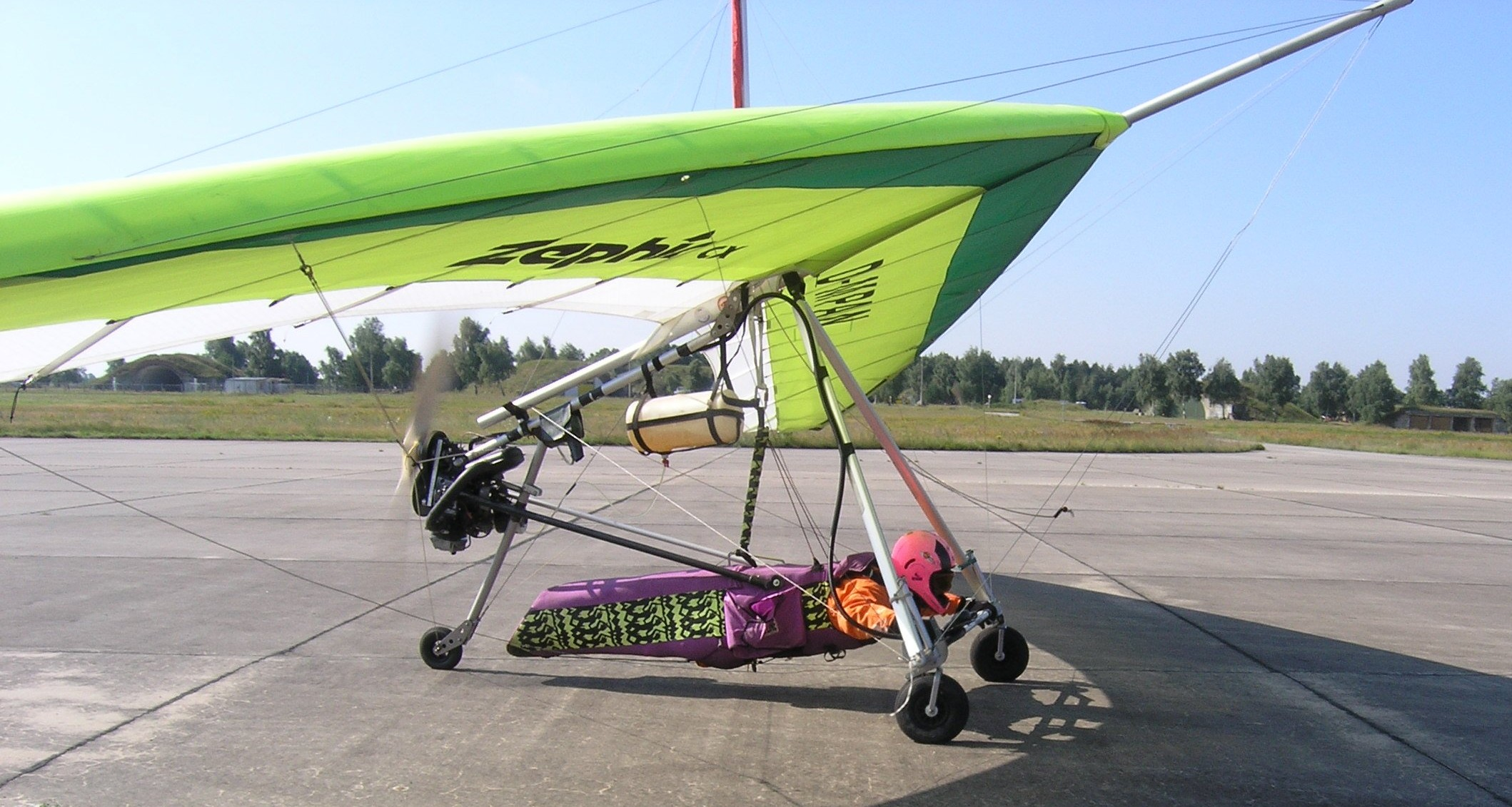 A motorized hang glider on a runway, accelerating for launch. Date: august 2005 Place: Altes Lager, Germany Motor: Minimum System Photographer: Kai-Martin Knaak Copyright under GFDL granted by Kai-Martin Knaak (Wiki Commons category: "Air sports")